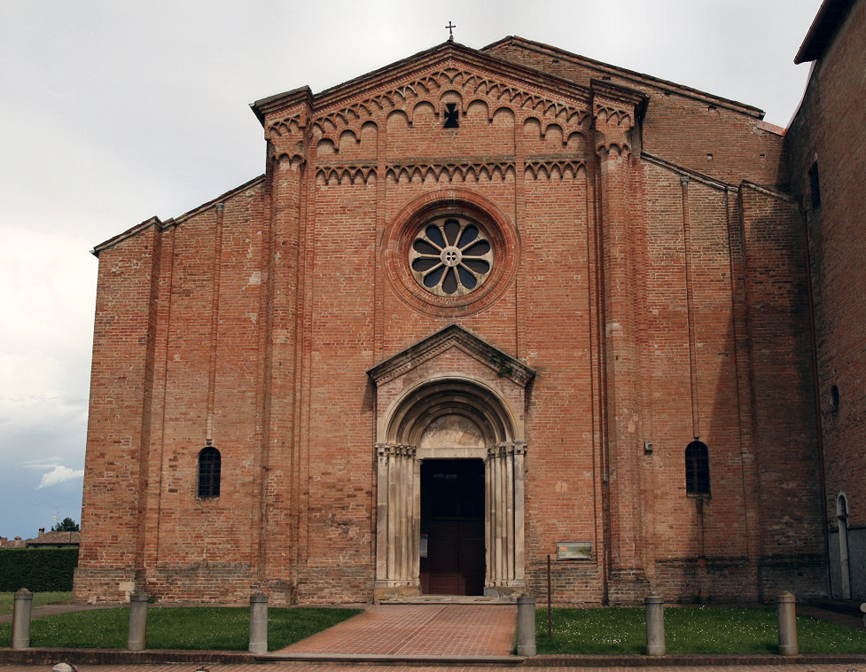 San Bernardo church in Fontevivo, province of Parma, Italy.